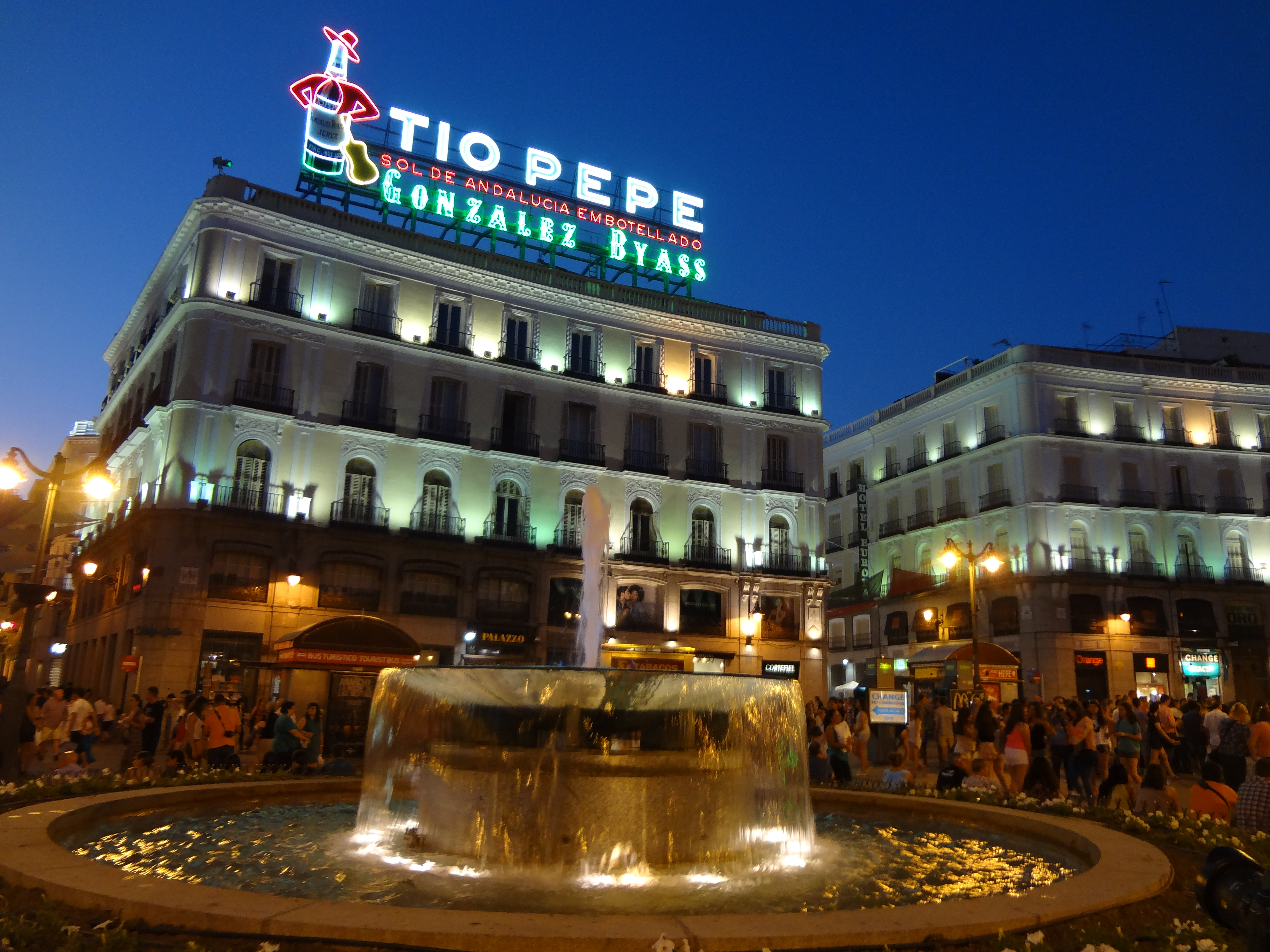 Puerta del Sol in Madrid, Spain ' Tio Pepe Neon Advertisment ' photographed at Sunset